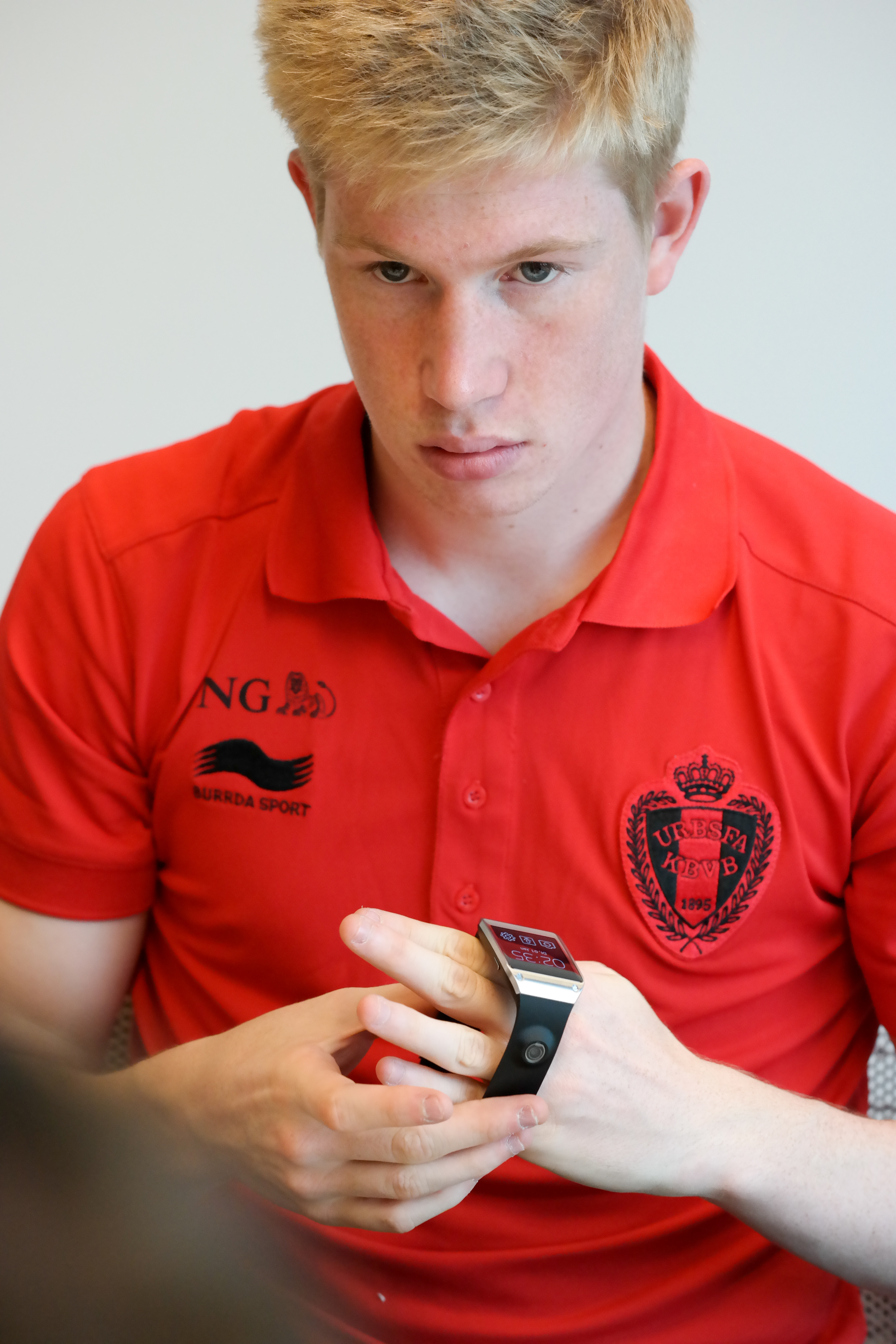 Red Devils visit Samsung Showroom